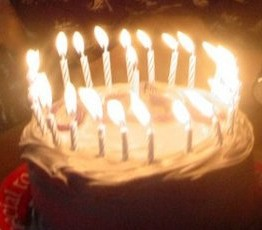 Man with birthday cake